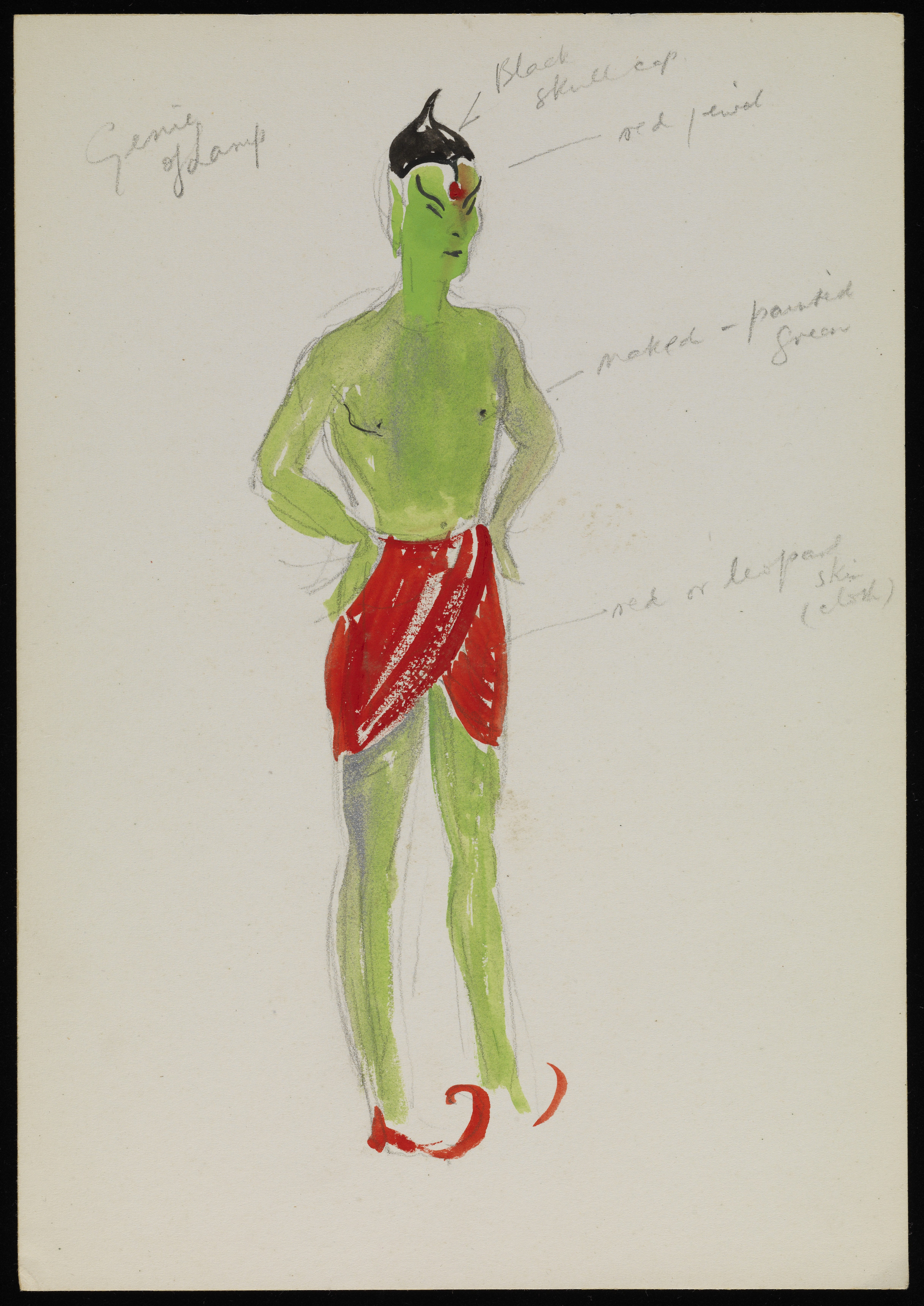 Painting of a pirate. Design of costume for Netherne pantomime. Painted by Edward Adamson (1911-1996), pioneer of Art Therapy in Britain. Christmas pantomimes in British asylums have a rich history and Netherne was no exception. Unfortunately we don't know whether the costumes designed and painted by Adamson have ever been used in a performance. Netherne Hospital was formerly The Surrey County Asylum at Netherne or Netherne Asylum, a psychiatric hospital in Surrey. PP/ADA/E/2. Archives & Manuscripts Keywords: Edward. Adamson; Mental Health; Art Therapy; Design; Costume